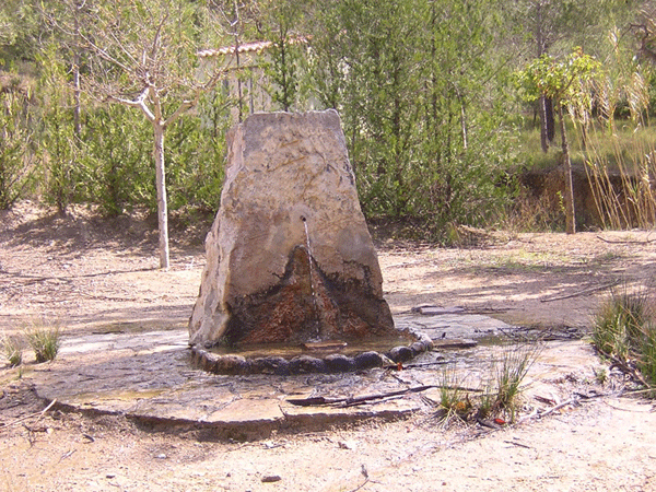 fuente la losa